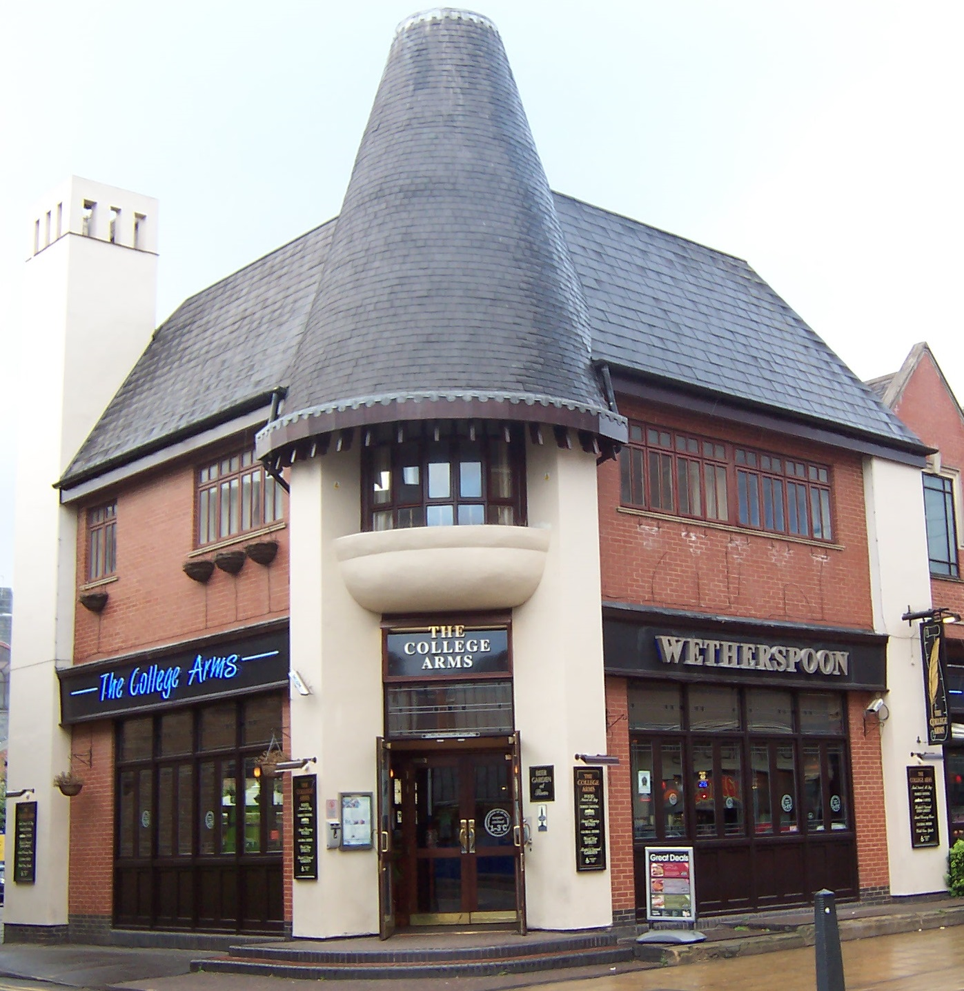 Wetherspoons pub The College Arms in Peterborough, England.